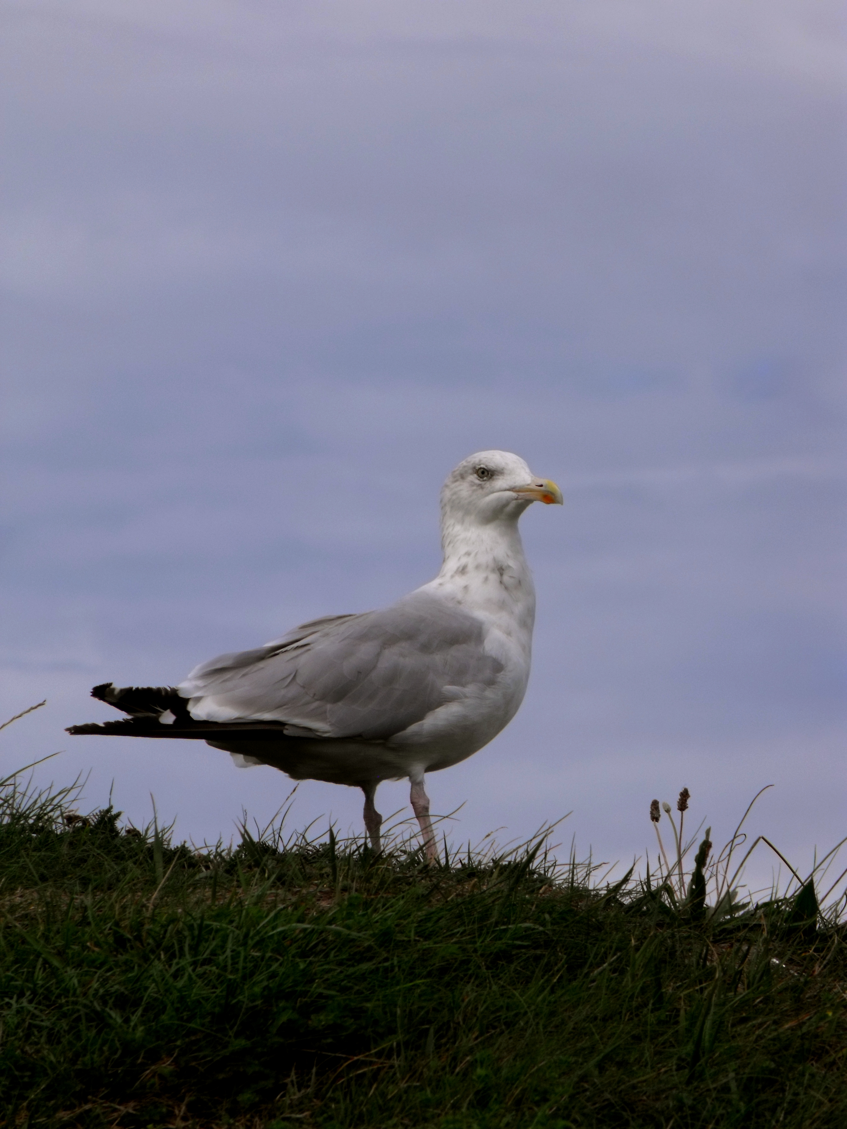 European Herring Gull